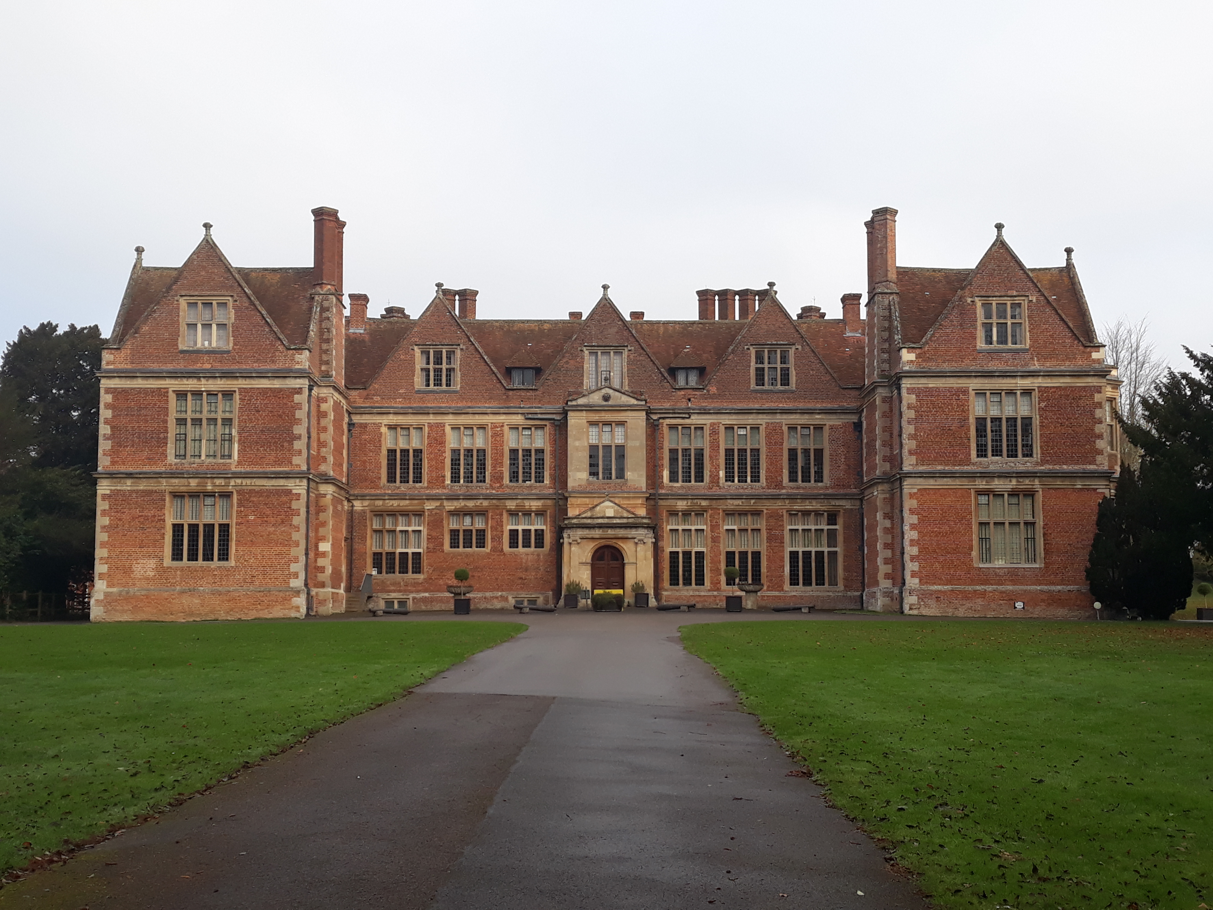 Shaw House, Newbury, Berkshire, England. Site of a Civil War battle in October 1644, when it was held by Royalists against a Parliamentarian attack. The battle ended in stalemate and the retreat of the Royalists.